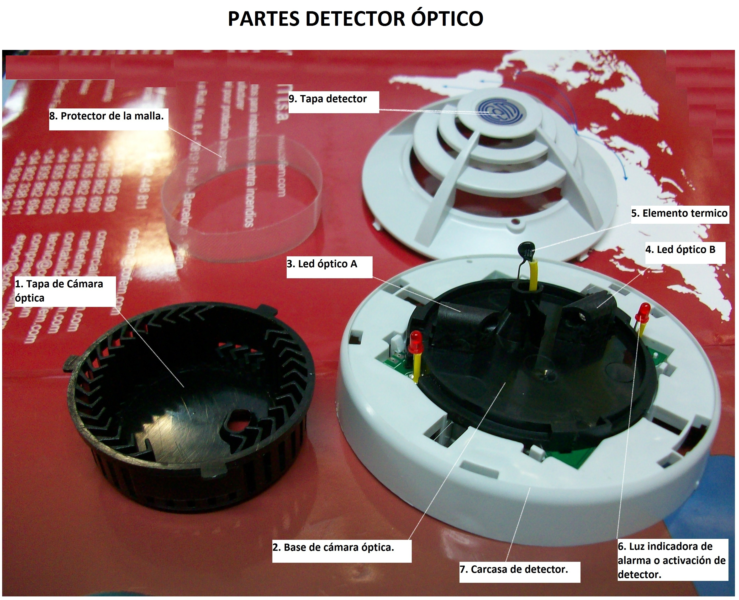 Parts of Optical Smoke detector